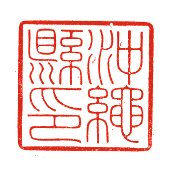 The seal of Okinawa Prefecture in Meiji era